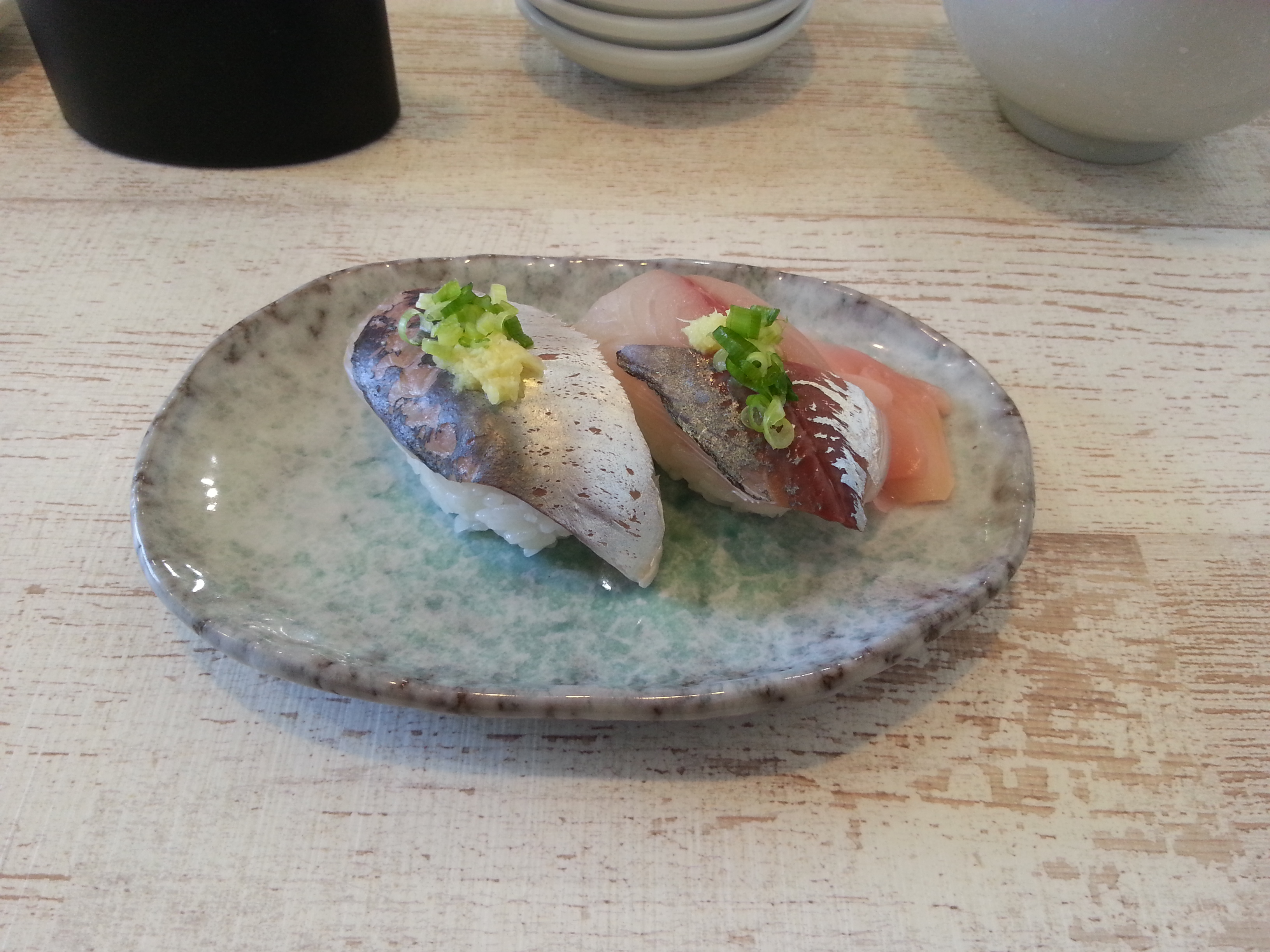 A plate of nigiri sushi with two pieces of fish.